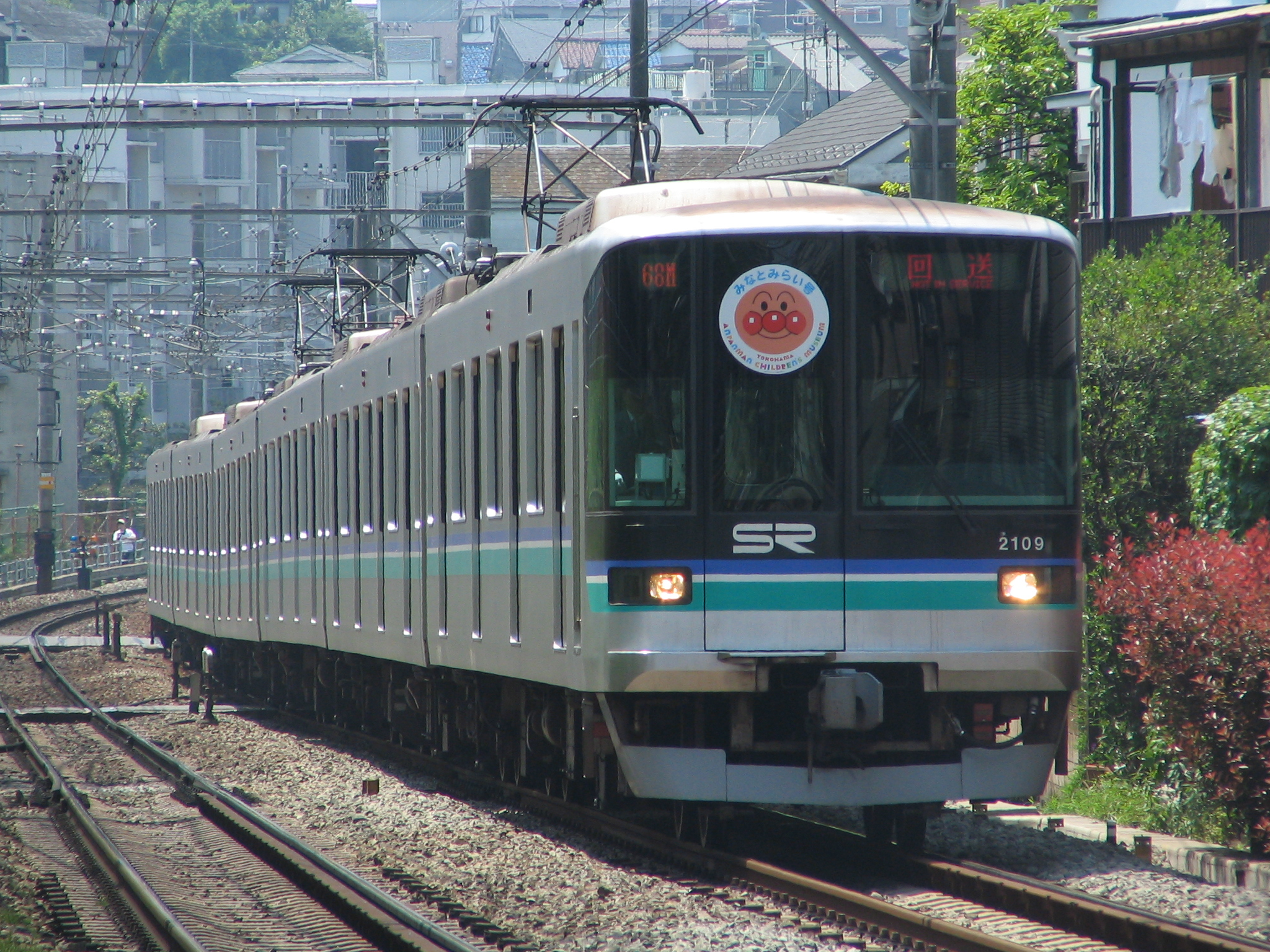 埼玉高速鉄道2000系 白楽～妙蓮寺にて Saitama Railway Corporation type 2000 between Hakuraku and Myorenji.